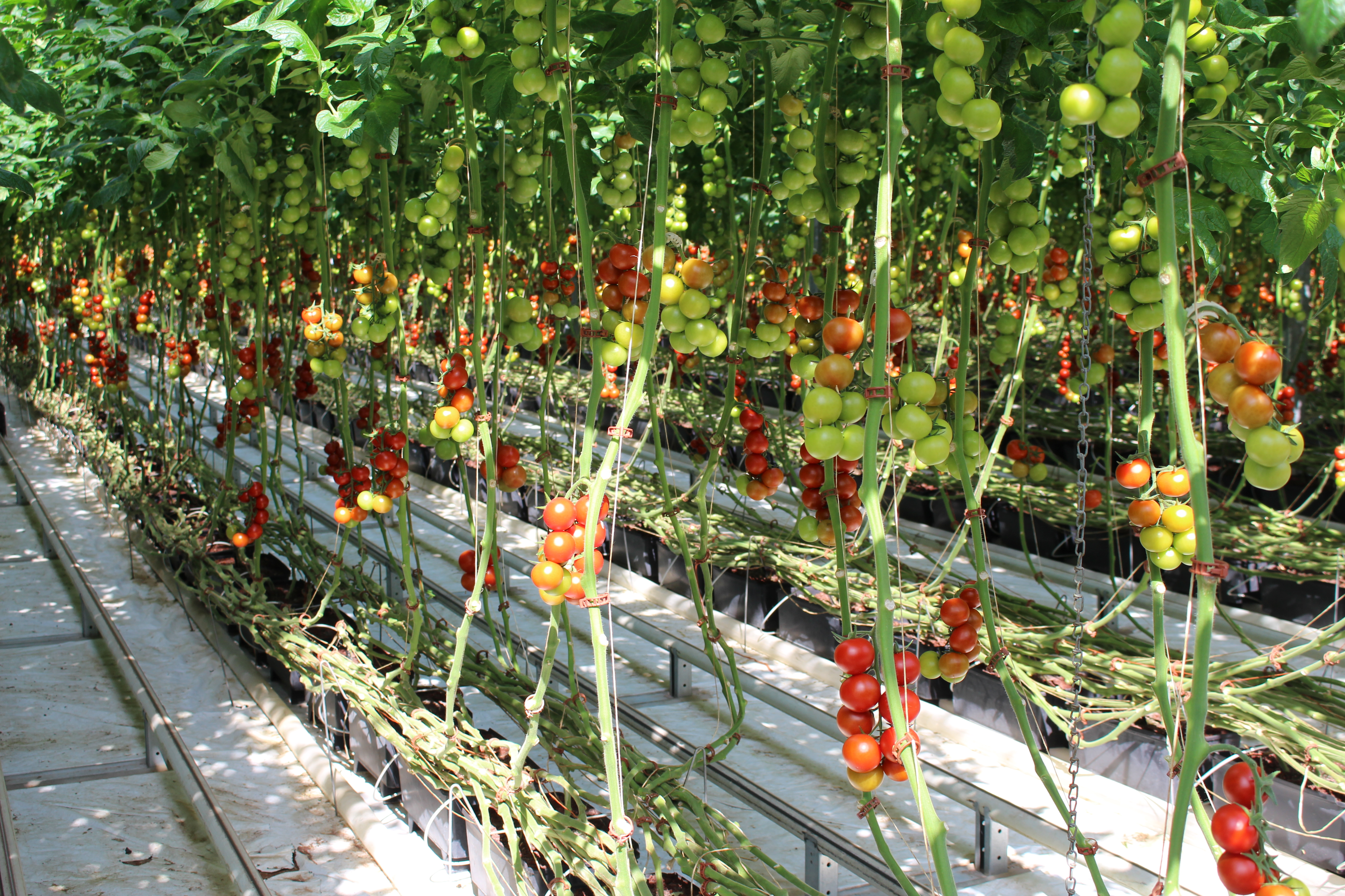 Tomato grown in greenhouses of Armenia.